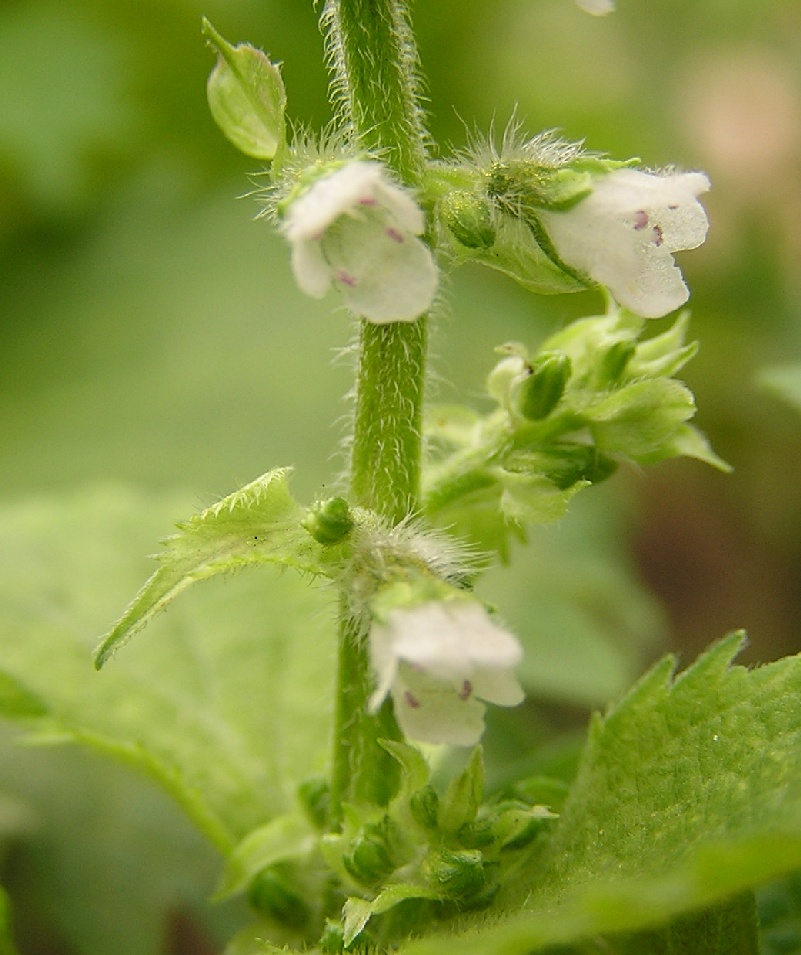 Perilla frutescens, inflorescence details.